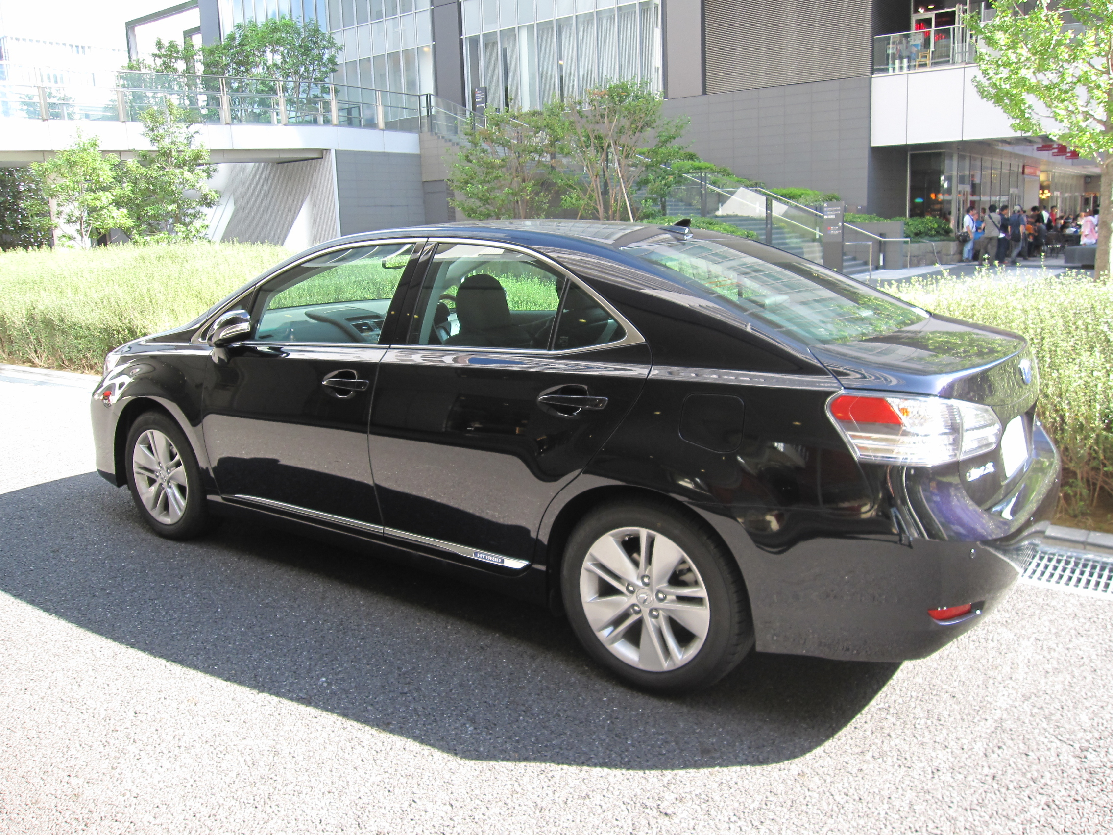 Black Opal